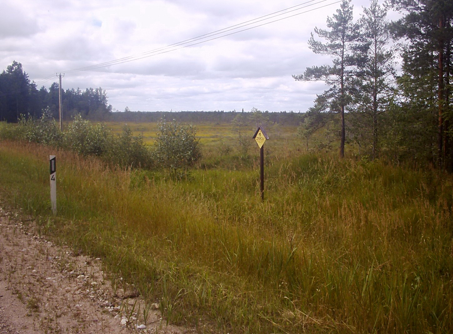 Teiču purvs, as seen from its southern border (see discussion page)